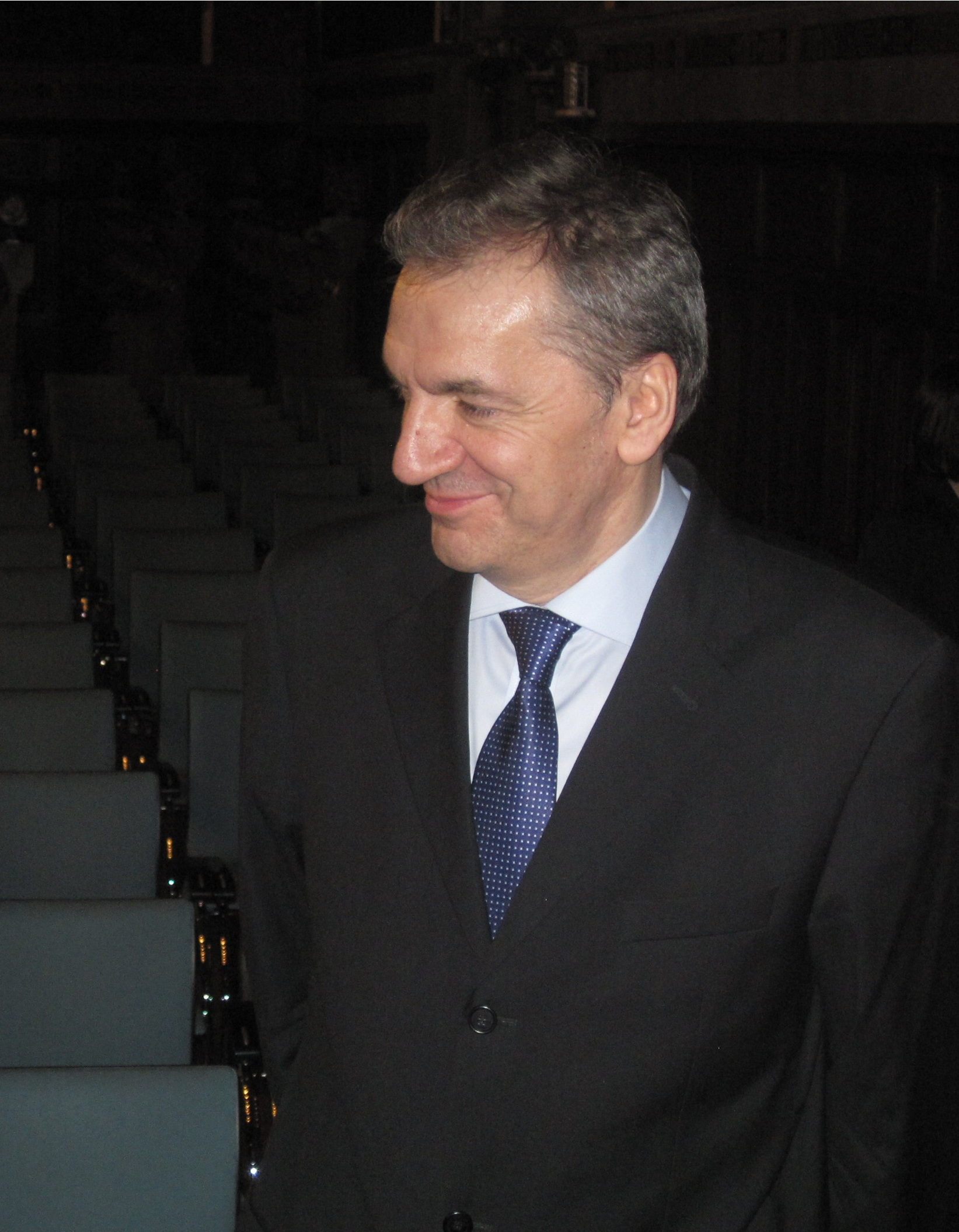 polonian film director Władysław Pasikowski